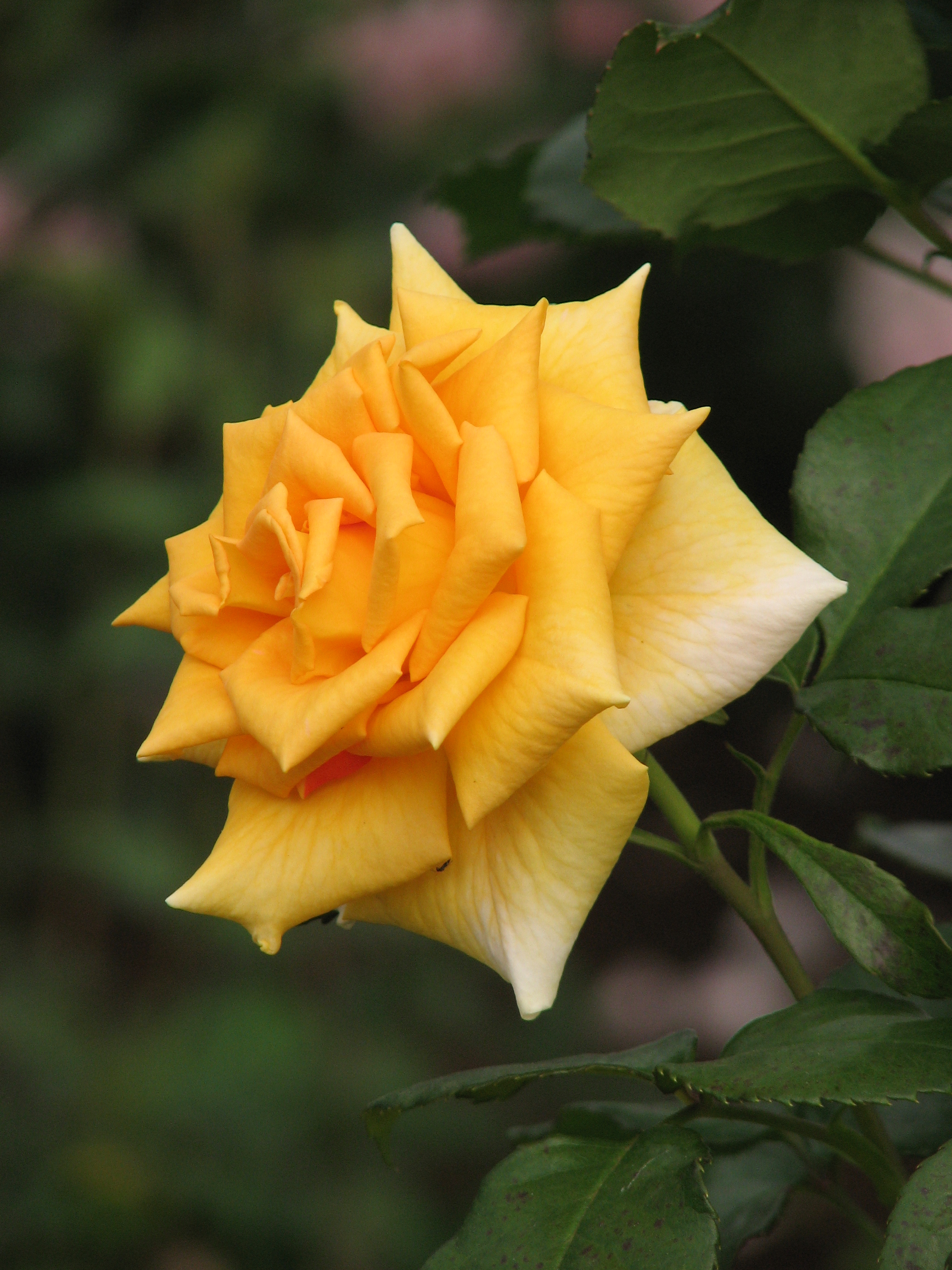 Rosa 'Golden Monica' (Rosen Tantau, 1988). From the collection of the Main Botanical Garden of Academy of Sciences in Moscow (Rosarium).